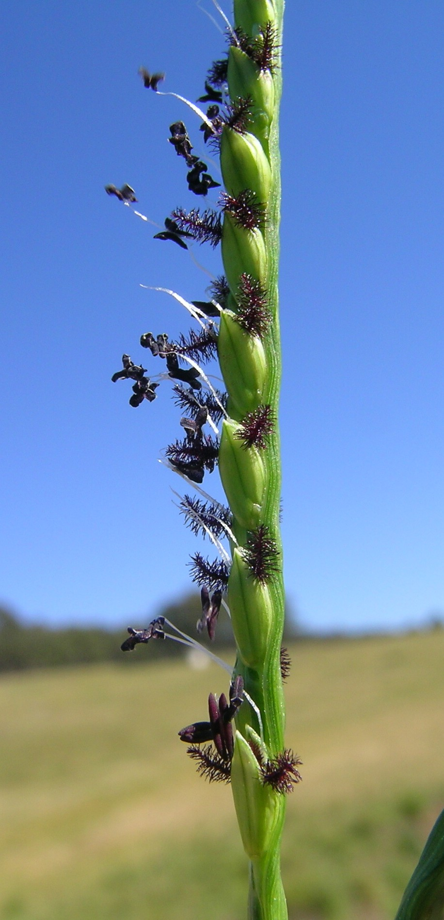 Spikelets occur in 2 rows and are 2-3.5 mm long, dorsally flattened, elliptic, 2-flowered and minutely hairy (hand lens often needed).